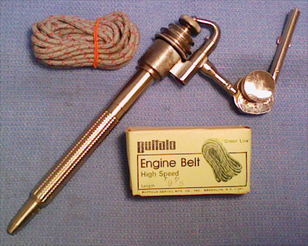 Chayes M33 dental handpiece with Buffalo drive (engine) belt.